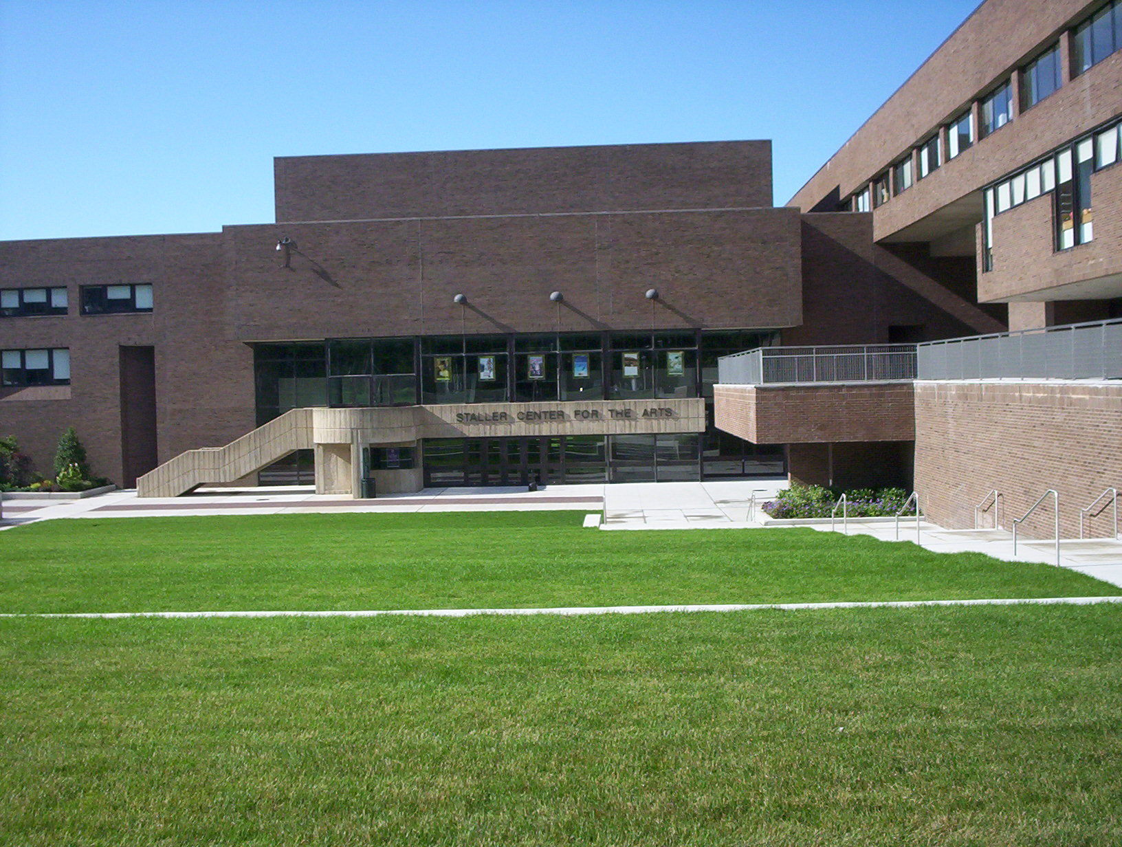 The Staller Center at the State University of New York at Stony Brook.